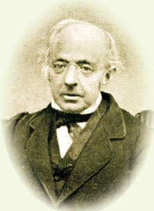 Samuel David Luzzatto ("Shadal"), d.1865